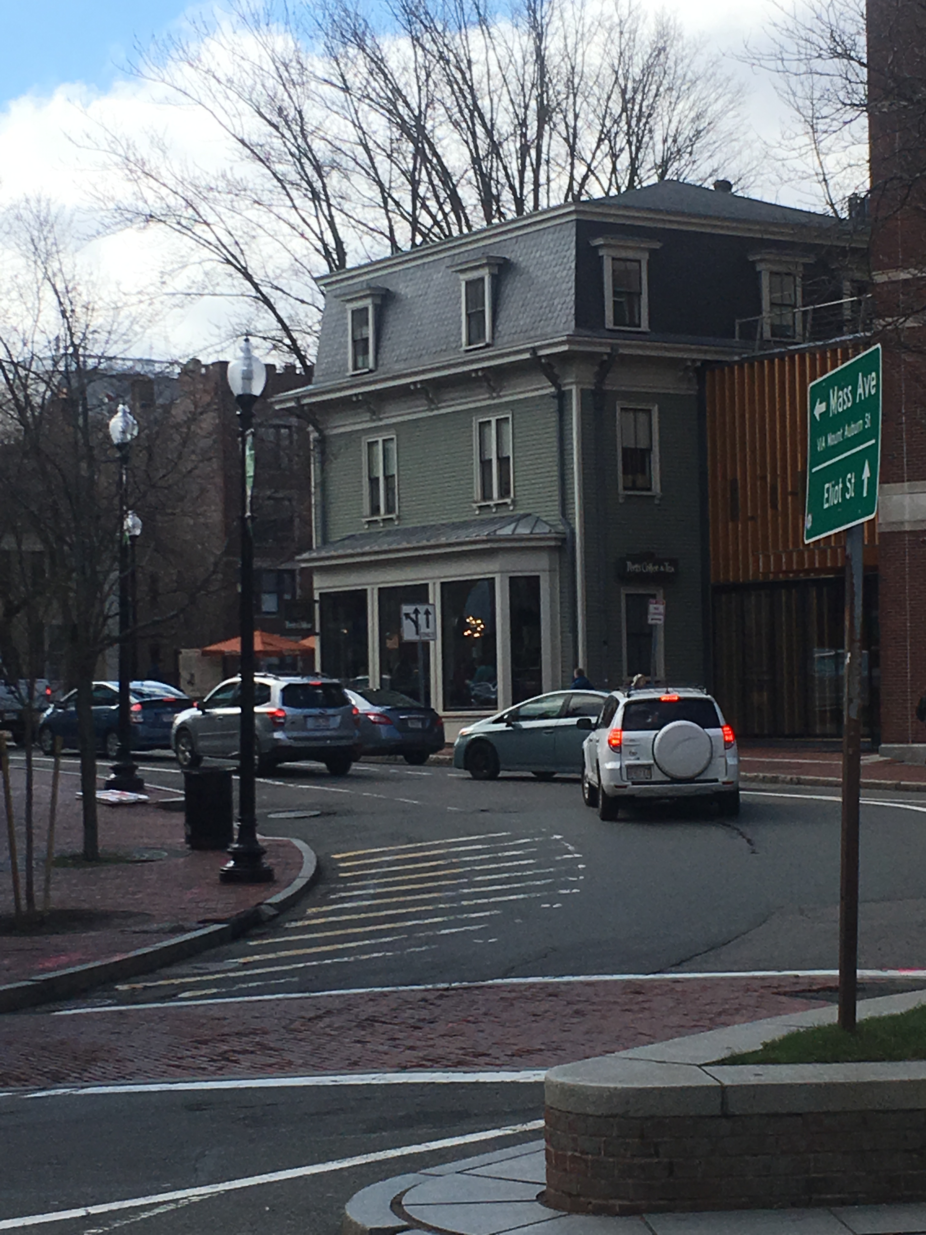 The original site of Elizabeth Glover's house in Cambridge, MA. A sign outside the building highlights the historical significance of the location.